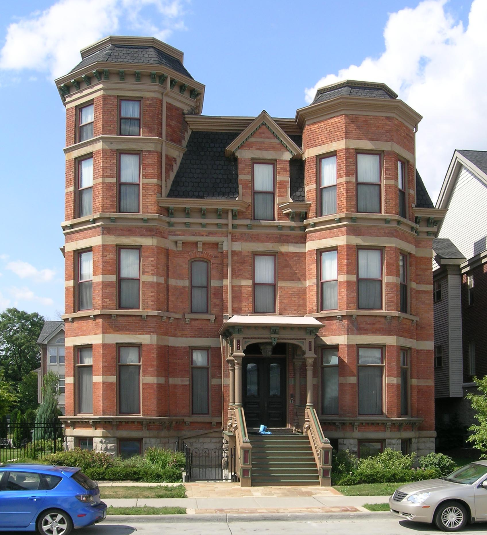 The John Harvey House, present day Inn at 97 Winder — at 97 Winder, Brush Park neighborhood, mid-city Detroit, Michigan. A brick house built in 1887 in the Second Empire style, and restored as a bed and breakfast inn. A contributing property in the Brush Park Historic District, and on the National Register of Historic Places.